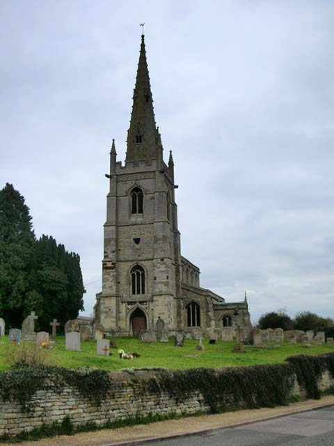 Church of St Nicholas, Islip. The Church has American connections - in the chancel is a monument to Mary Washington, whose husband John was uncle of the John Laurence Washington who sailed to America in 1657, becoming the great-granfather of the President.